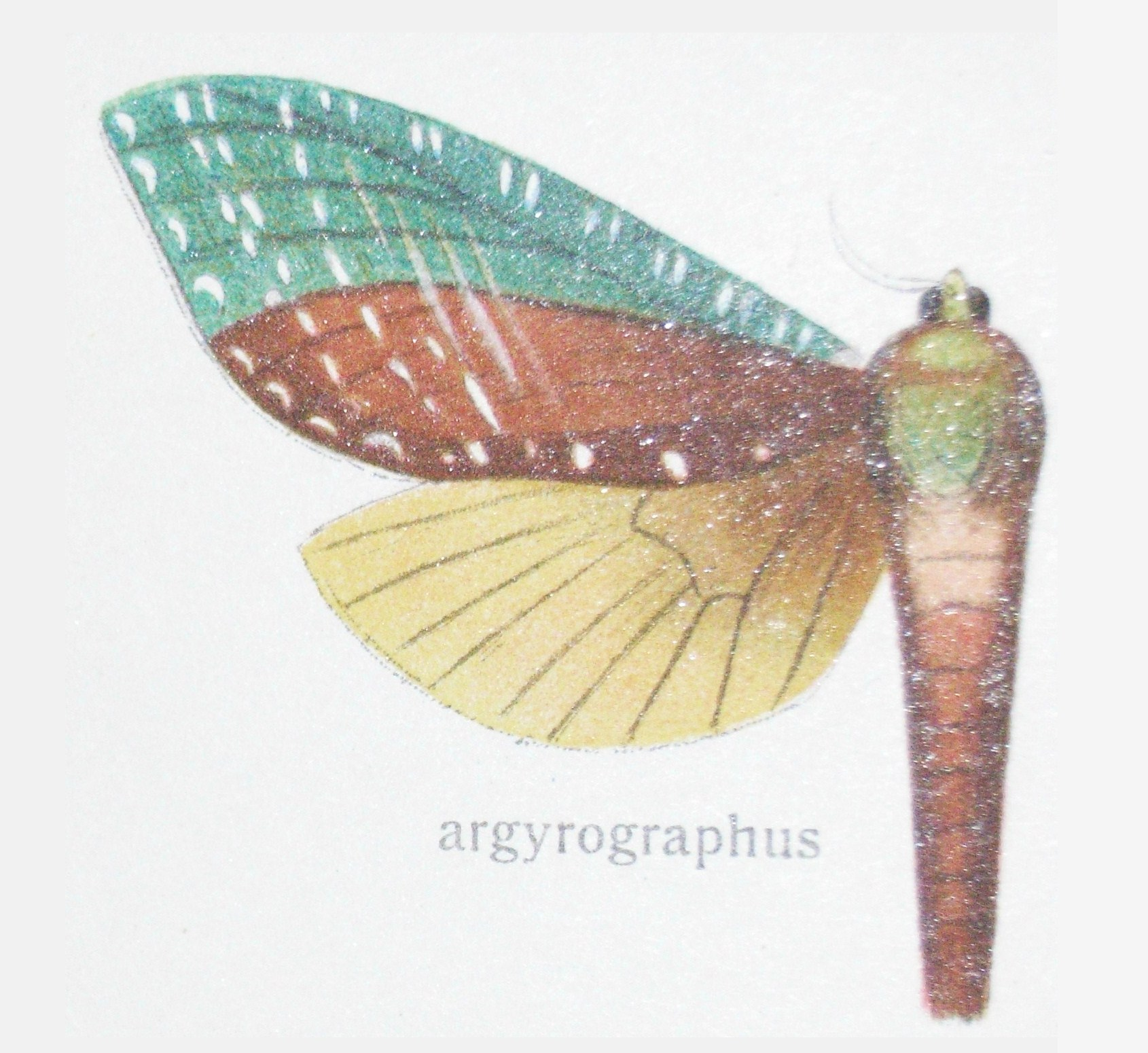 Aenetus scripta (Scott, 1869)= Charagia scripta Scott, A.W. 1869 = Charagia argyrographa Felder, R. & Rogenhofer, A.F. 1874